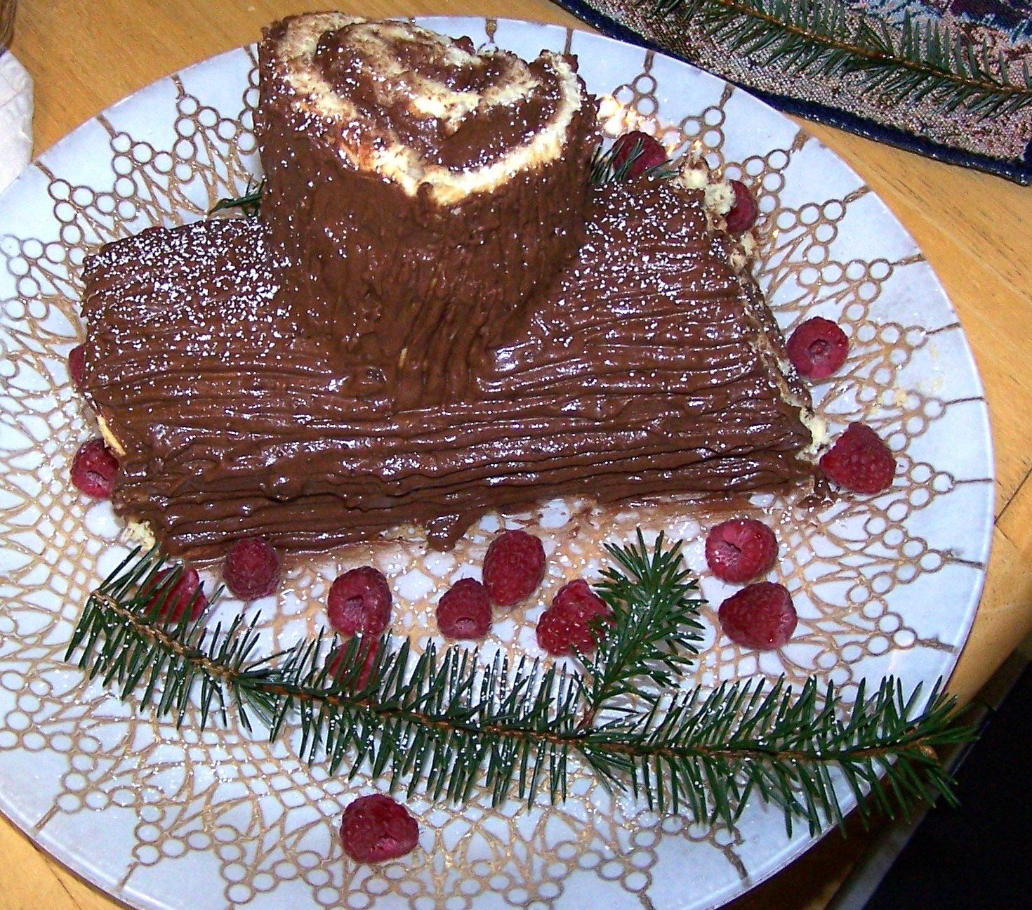 Photograph of a Bûche de Noël, by Andrew Pendleton ( released by the photographer under the Creative Commons ShareAlike 2.5 license.